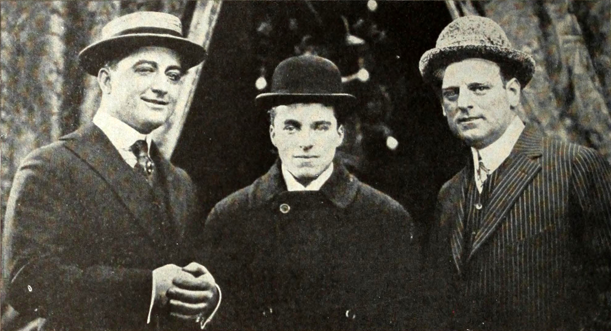 Promotional photo. From left to right: Francis X. Bushman, Charlie Chaplin, Broncho BillY Anderson.